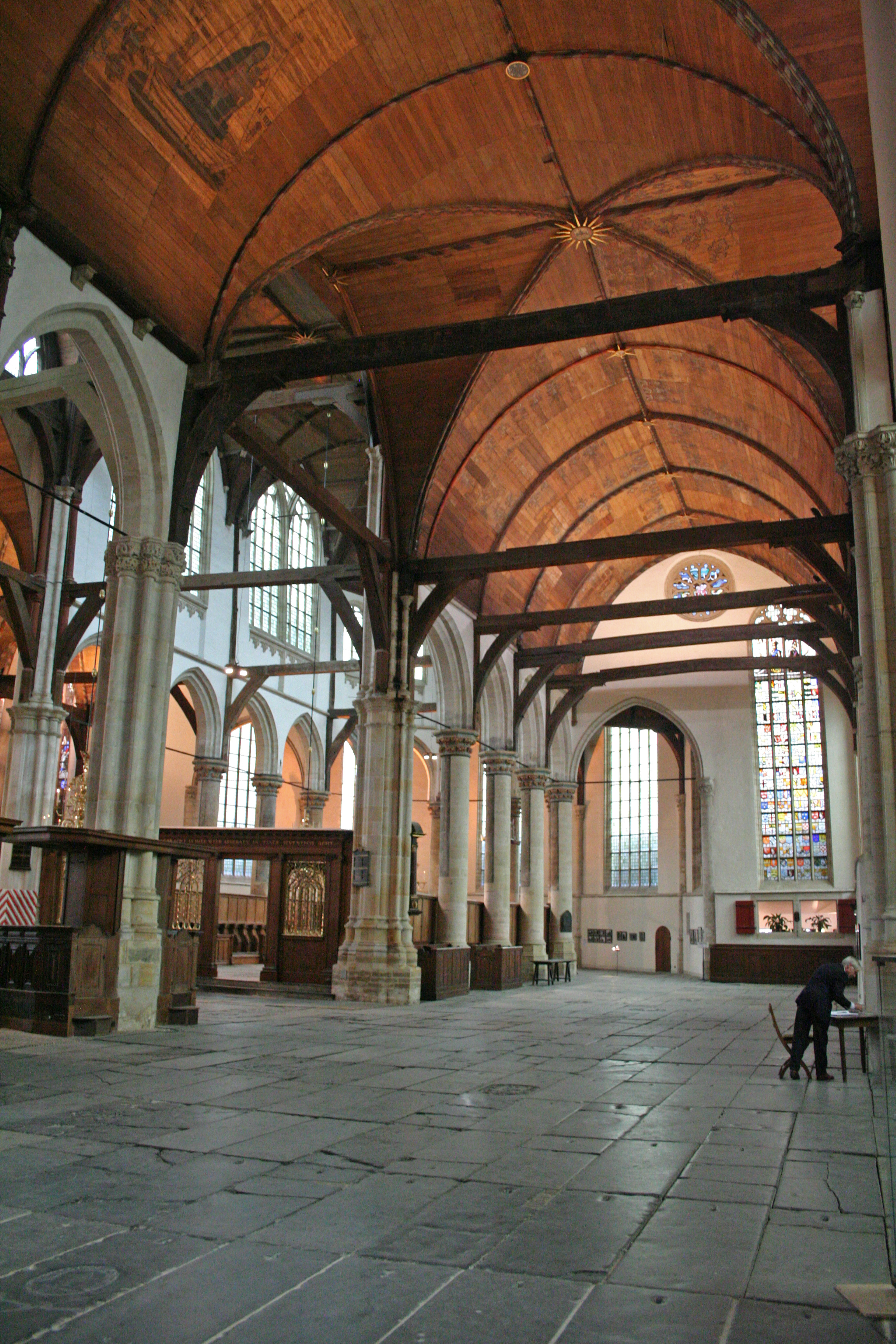 Wodden roof of the Oude Kerk in Amsterdam